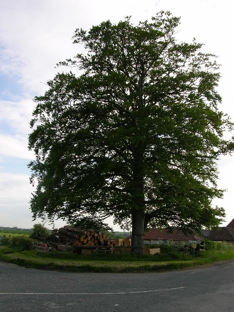 Eddlethorpe - the woodpile. A pretty famous feature on the Malton to Stamford Bridge Road near Westow